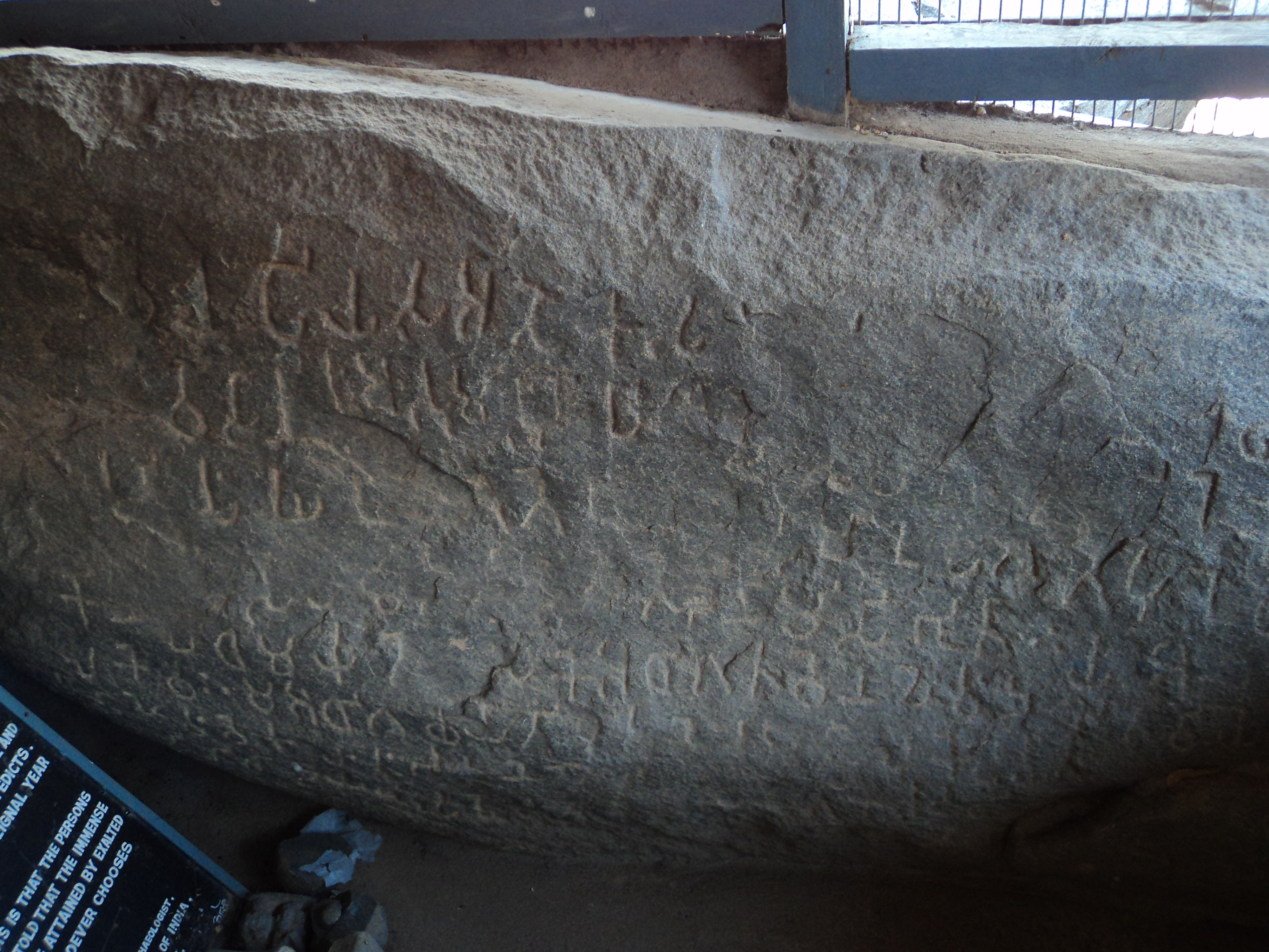 Rock edicts of Asokha,closer look